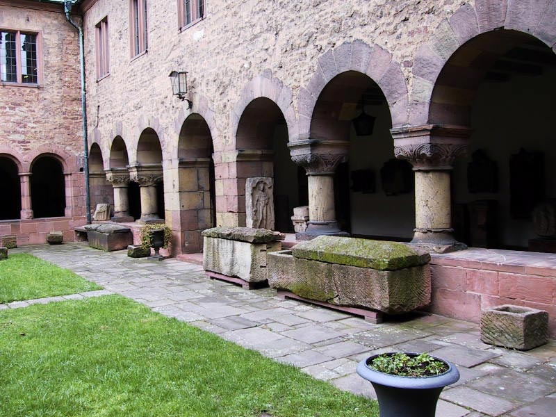 A Roman-era sarcophagus in Worms, Germany.Original summary: Mike Chapman